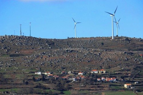 Village of Vila Lobos, region of Lamego, Portugal, with eolics generators